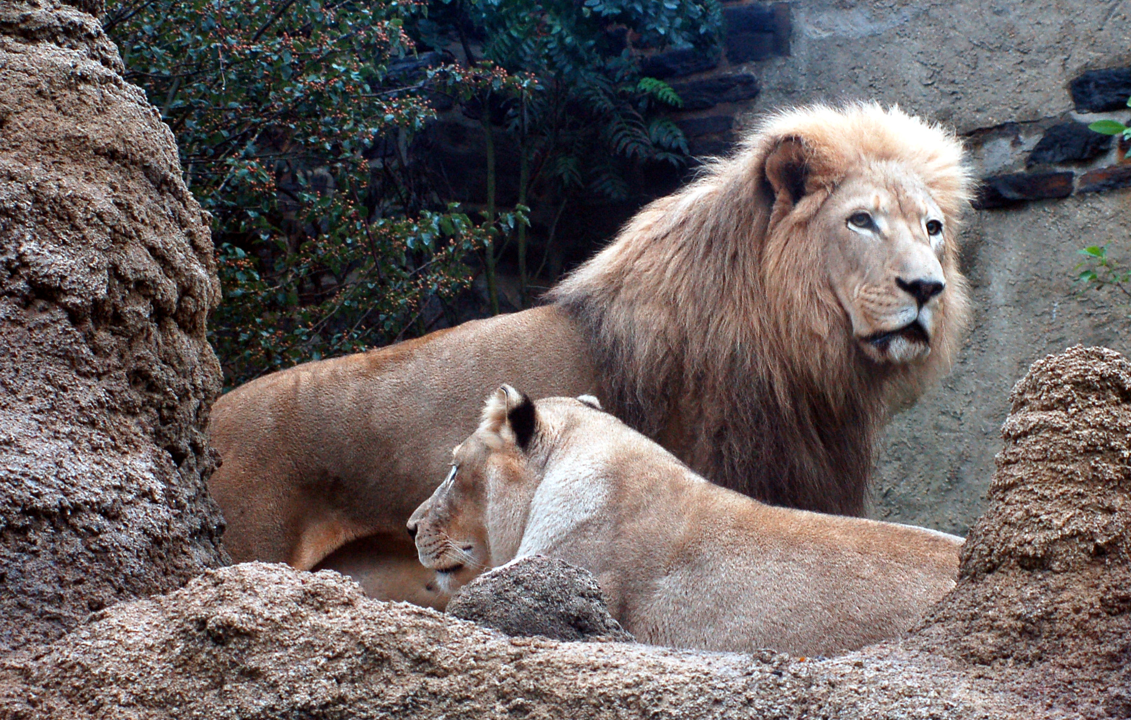 A photograph of the African Lion (Panthera leo krugeri). Photo taken at the Philadelphia Zoo.